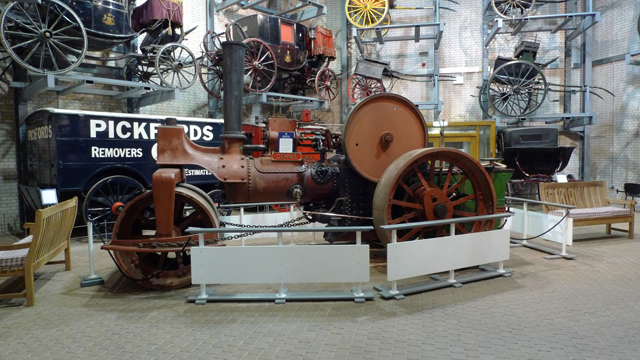 Part of the Mossman Collection (1). See 1548300 for more detail.